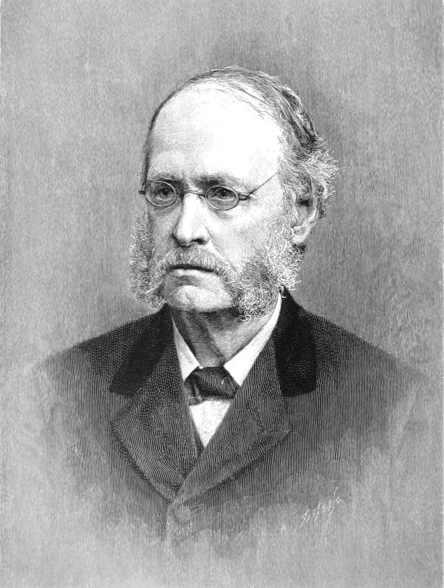 David Ames Wells